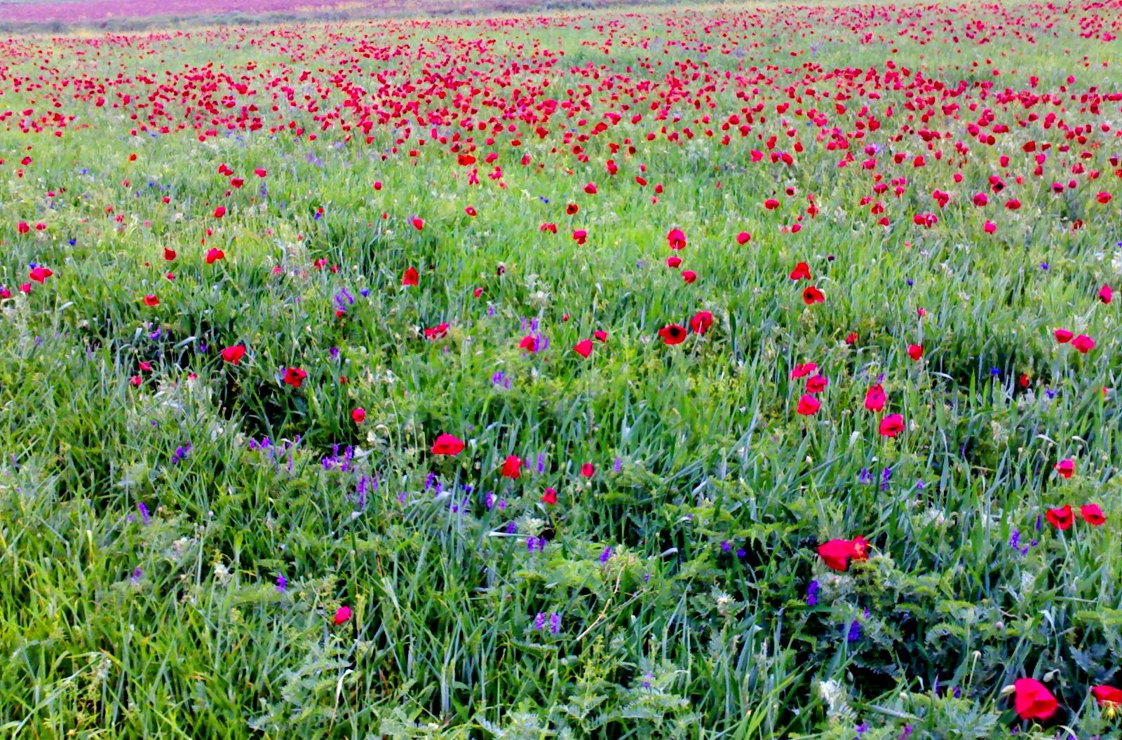 Khankandi Laleh